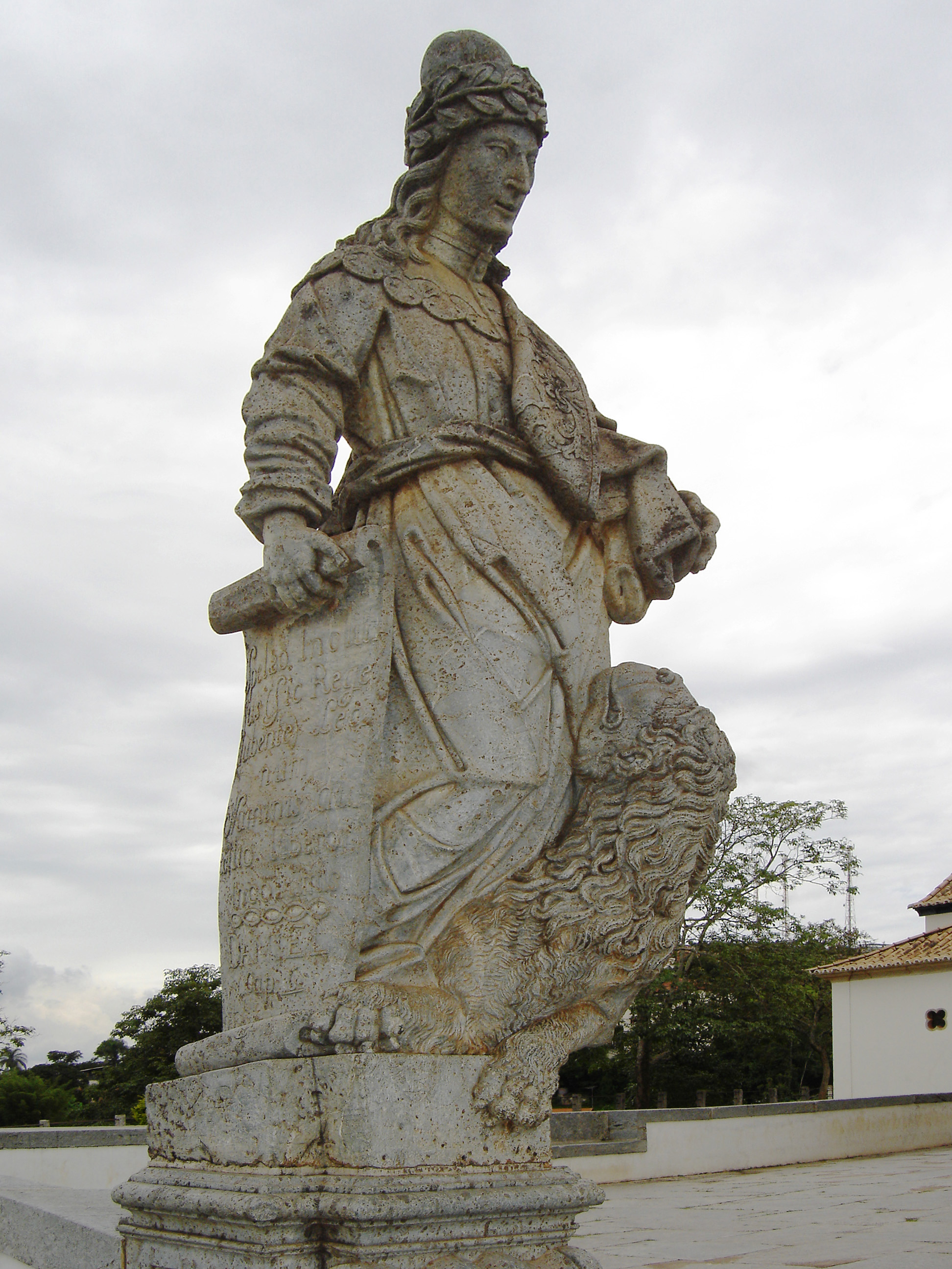 Statue of the prophet Daniel sculpted by Aleijadinho in front of the church of the sanctuary of Bom Jesus of Matosinhos at Congonhas, Minas Gerais, Brazil ; material : soapstone.